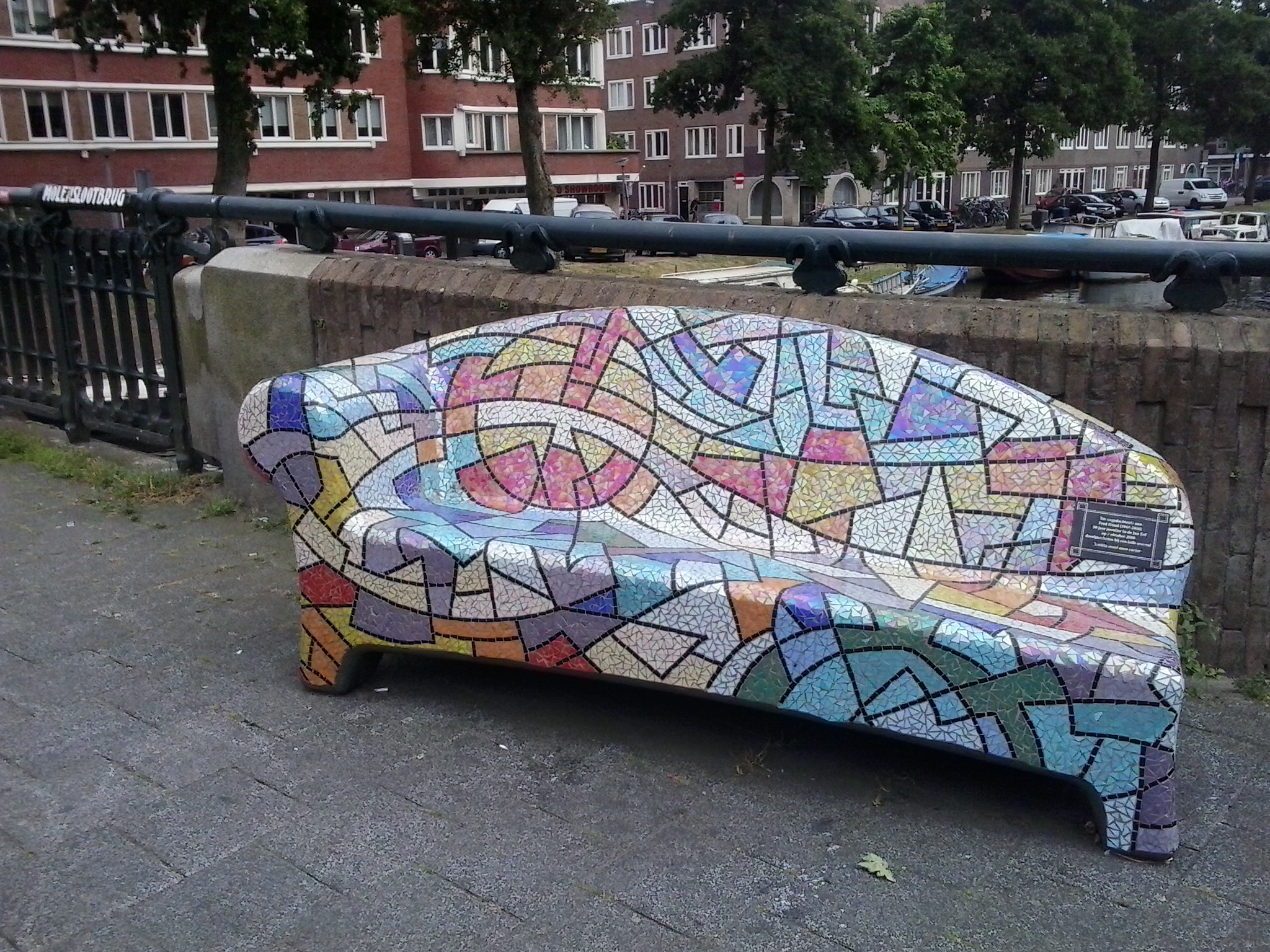 Memorial bench (social sofa) in Amsterdam-West